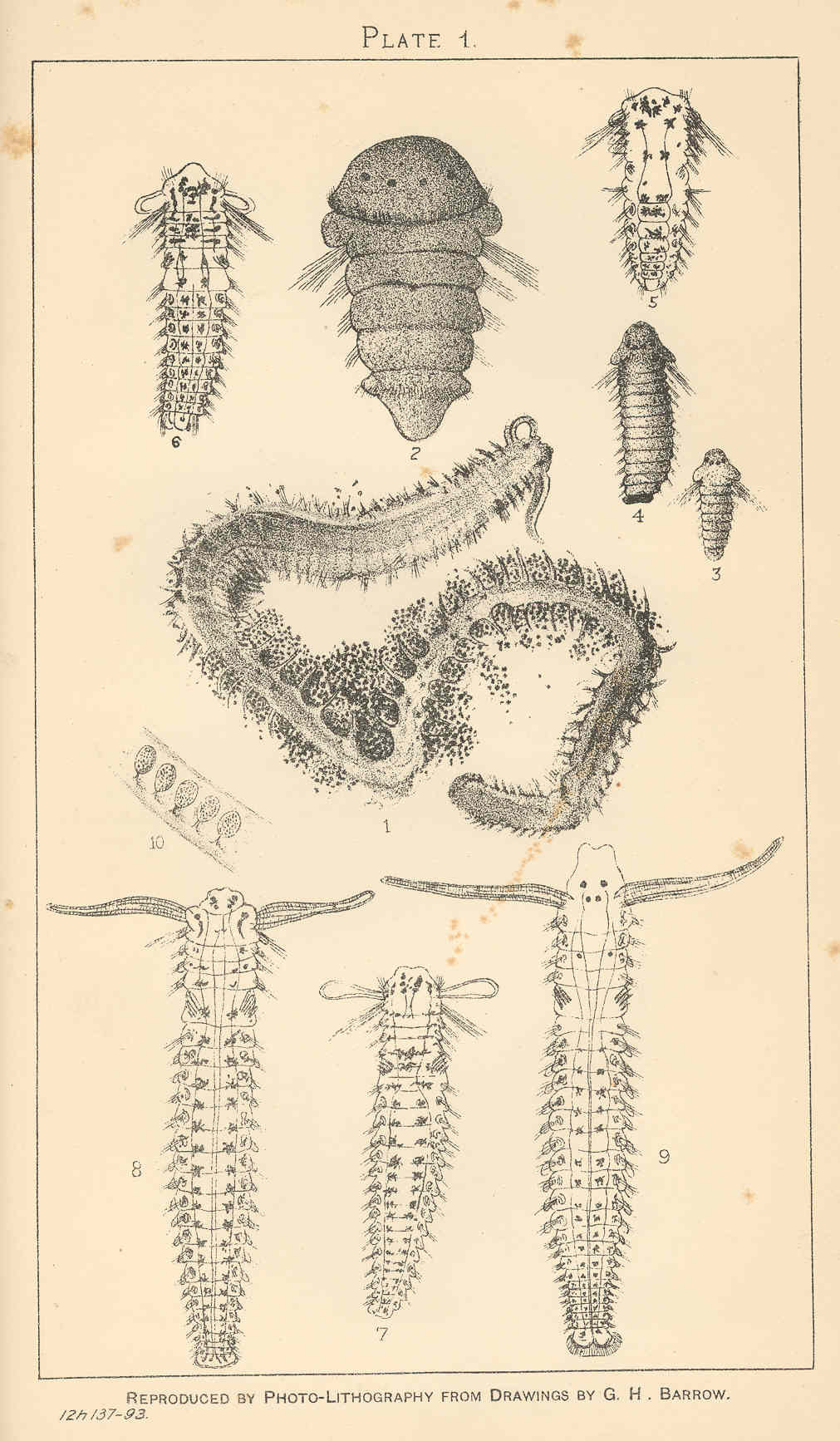 Polydora (Leucodore) ciliata, with ova (1) : Young larvae of Polydora from a photomicrograph (2), Older stages (3-4), Somewhat more advanced (5-9), Egg-cases of polydora (10) Subject: Polydora, Worms Tag: Wildlife